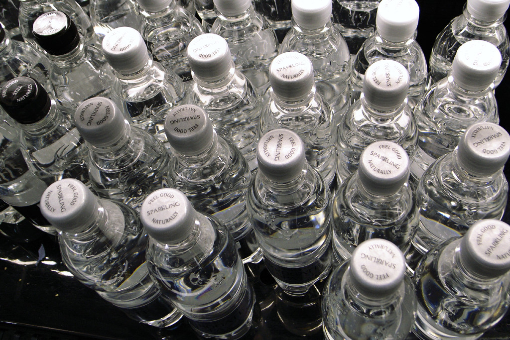 Images of bottled water